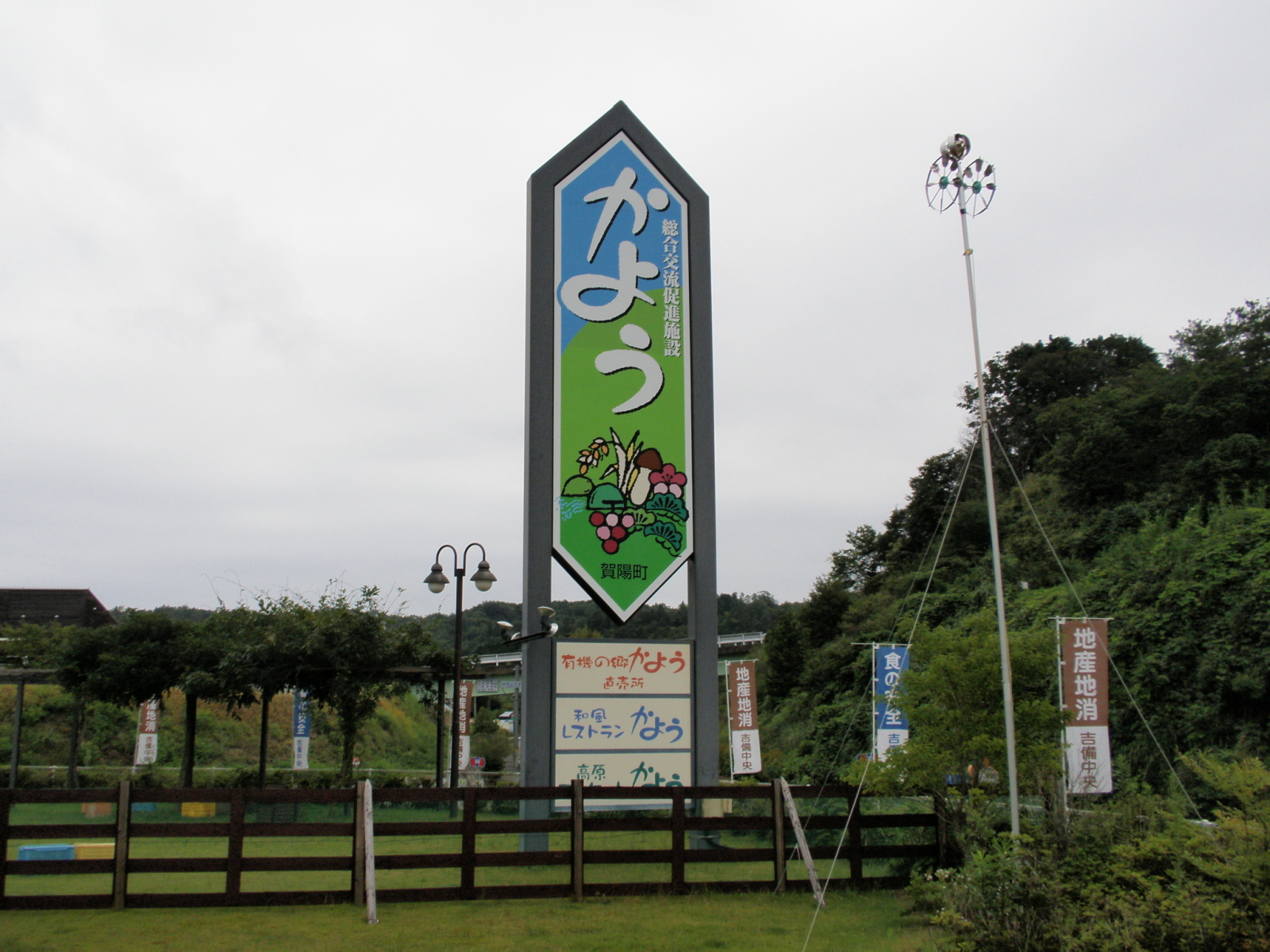 Roadside Station Kayo, Kibichūō, Okayama.